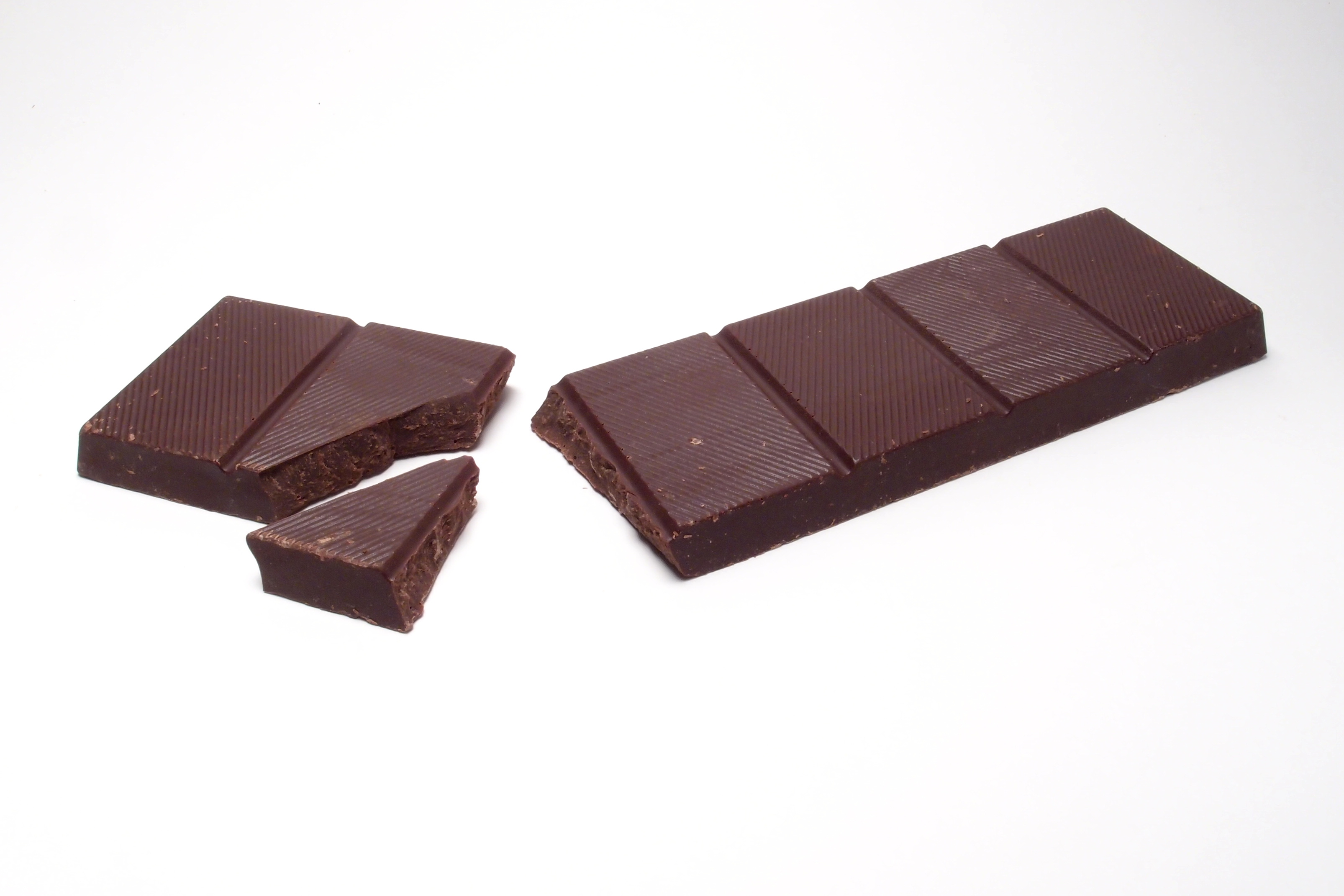 A 200 gram bar of dark cooking chocolate, broken up. This type of product is a cheap, somewhat coarse chocolate intended for cooking and baking, sold on the German market as „Blockschokolade“. This particular specimen was made by Müller & Müller GmbH, Münchweiler (a subsidiary of Wawi Group), and has a minimum cocoa content of 40 %.